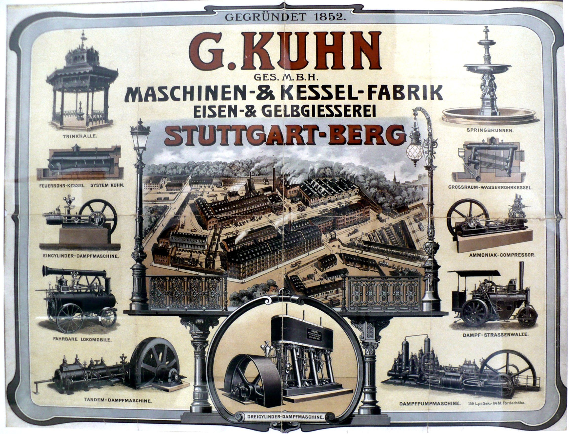 Advertising by G. Kuhn, Maschinen- und Kesselfabrik, Eisen- & Gelbgießerei, Stuttgart-Berg